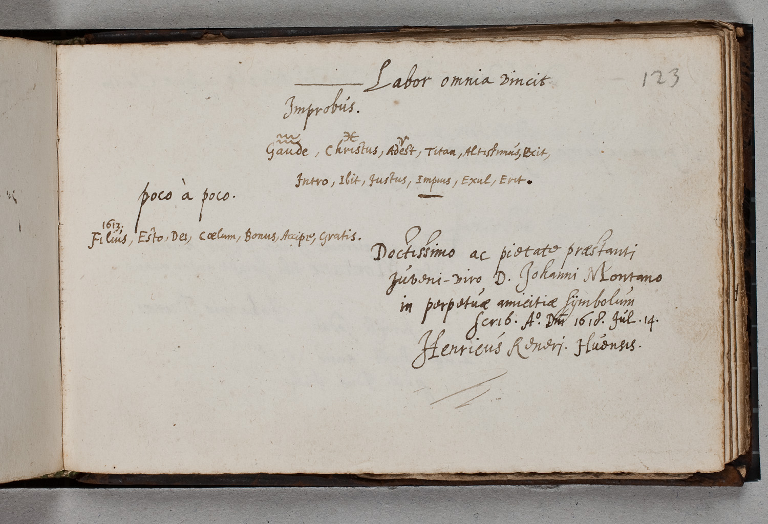 Henricus Reneri (1593-1639). Albuminscriptie van Reneri voor zijn medestudent aan het Collège Wallon Johannes Montanus (ca. 1595-na 1657). Europeana. Retrieved on 2013-11-03.